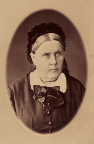 Sofia von Zweygberg (1828-1883), a Finnish textile trader.